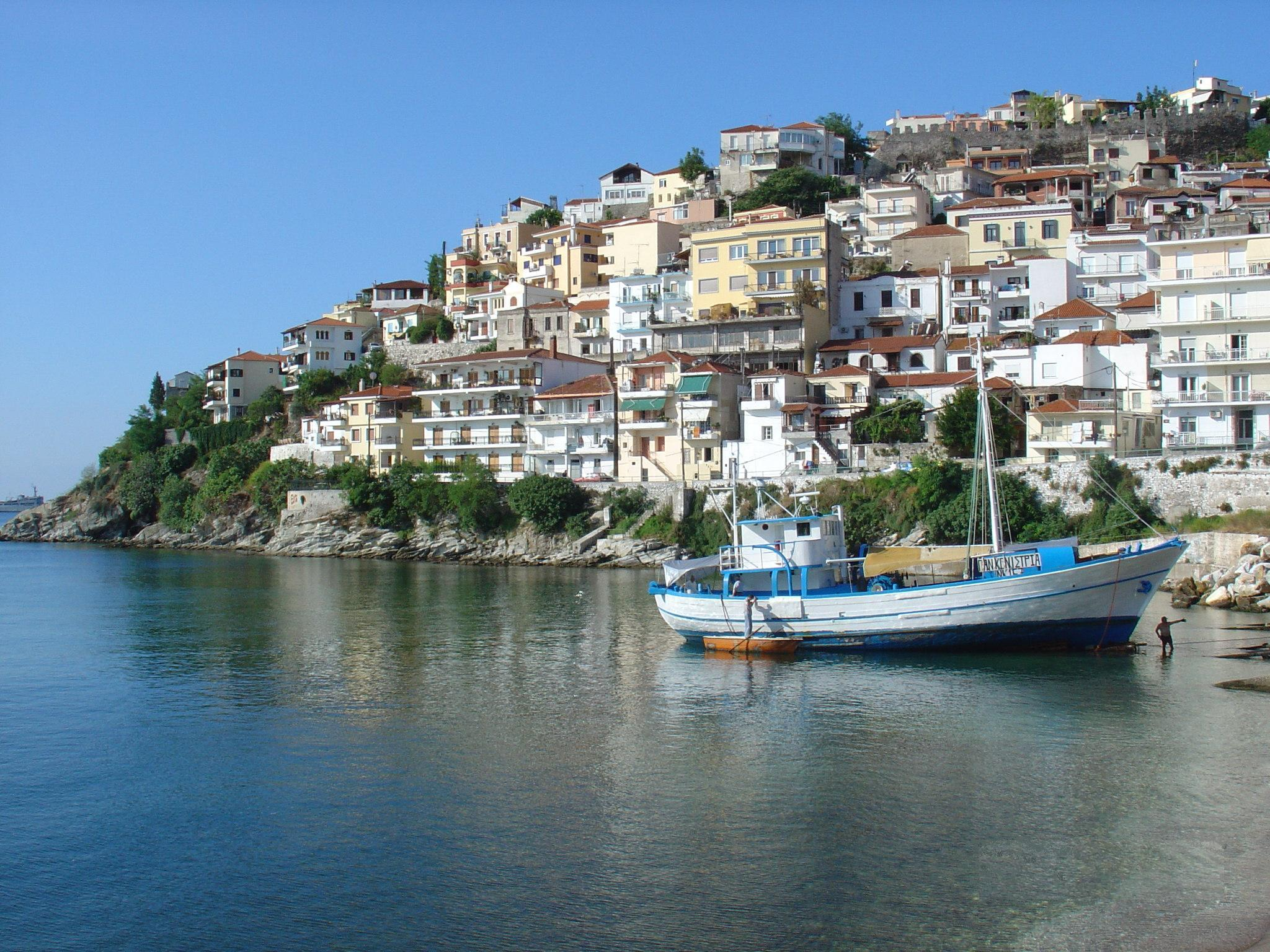 View of Kavala, Greece.